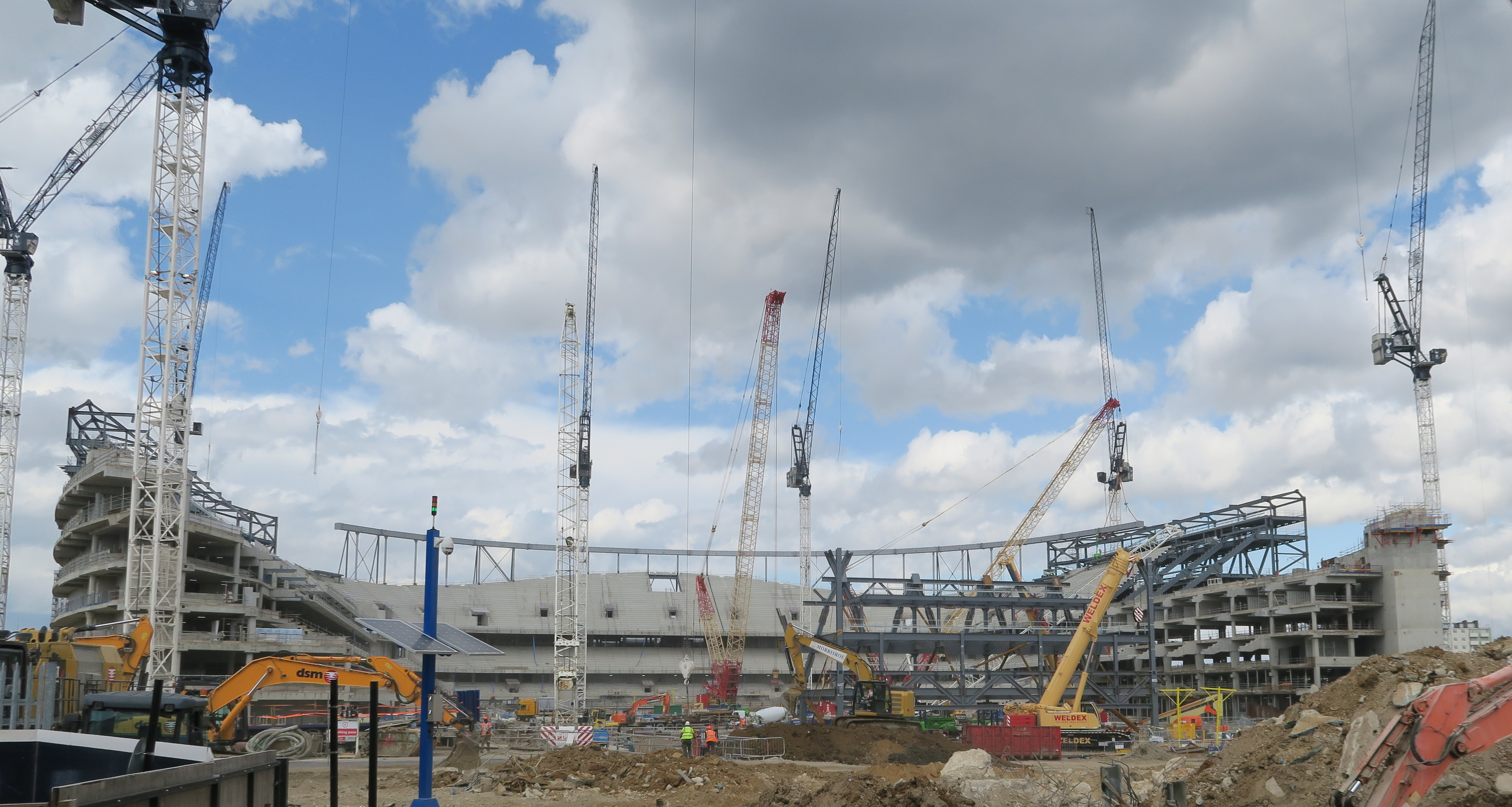 Construction of the new stadium at White Hart Lane early August 2017. The old stadium had by now been completely demolished.